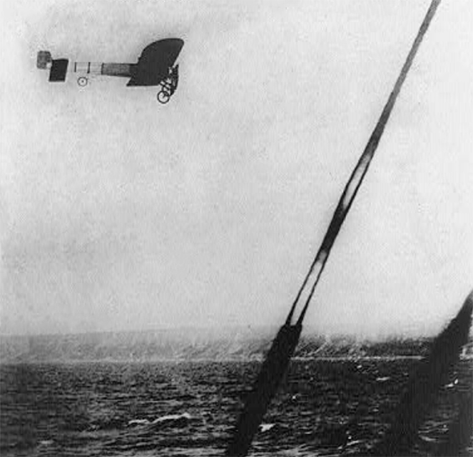 Louis Blériot (1872-1936) in his plane over the cliff of Dover, July 25, 1909